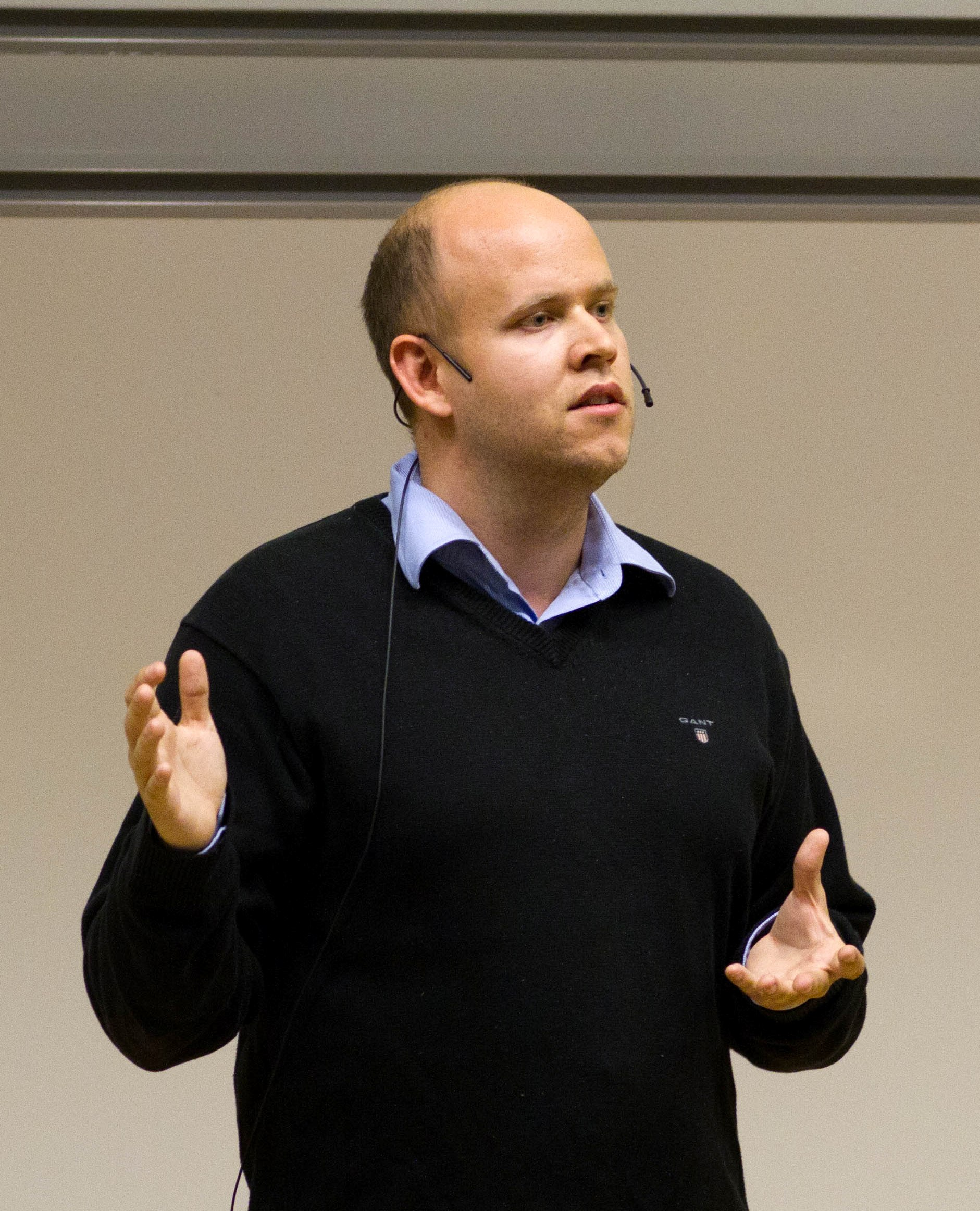 Cropped image of Daniel Ek, CEO of Spotify talking at IT-dagarna, Linköping University.